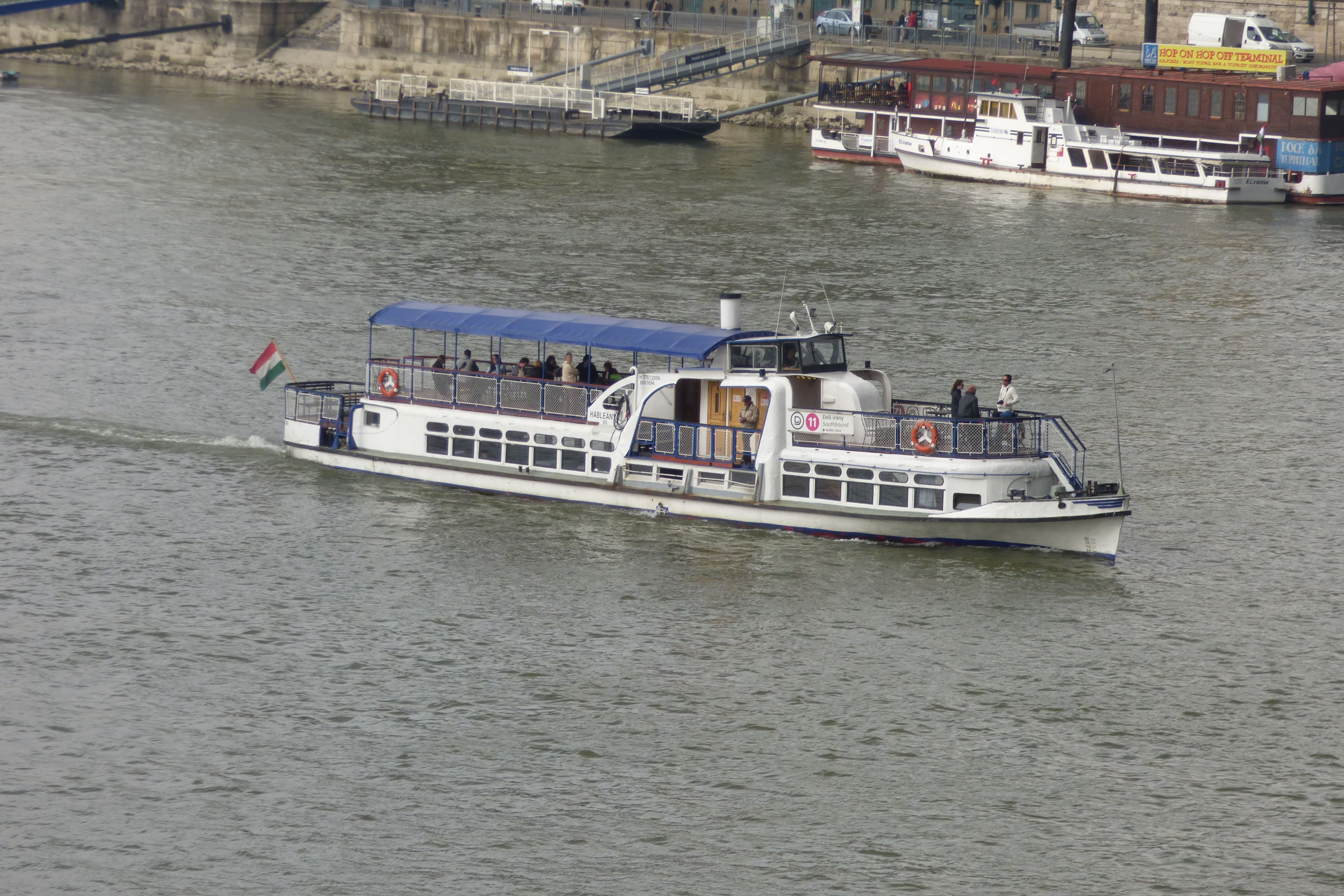 Boat Hableány